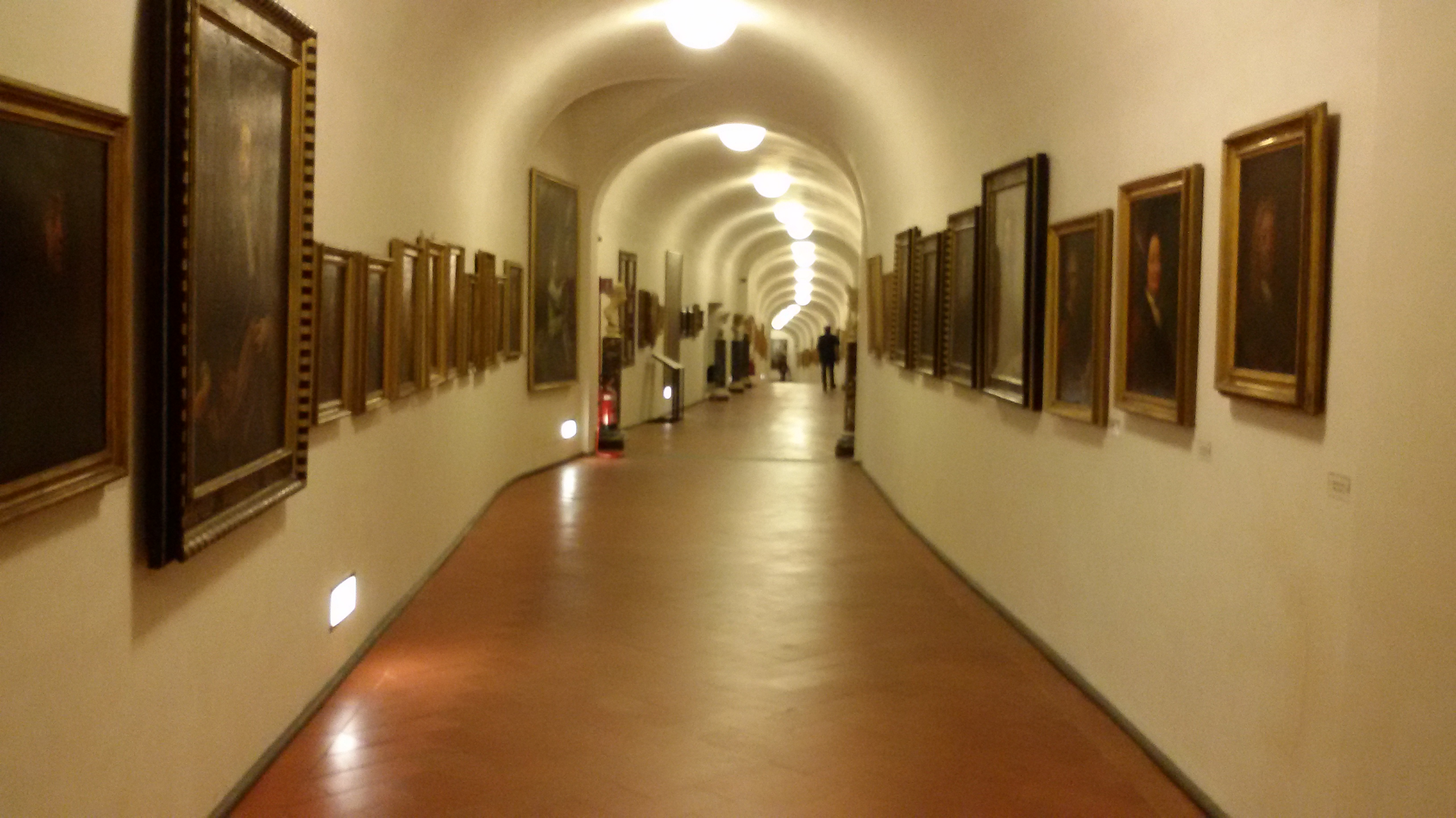 Curved part of the corridor.